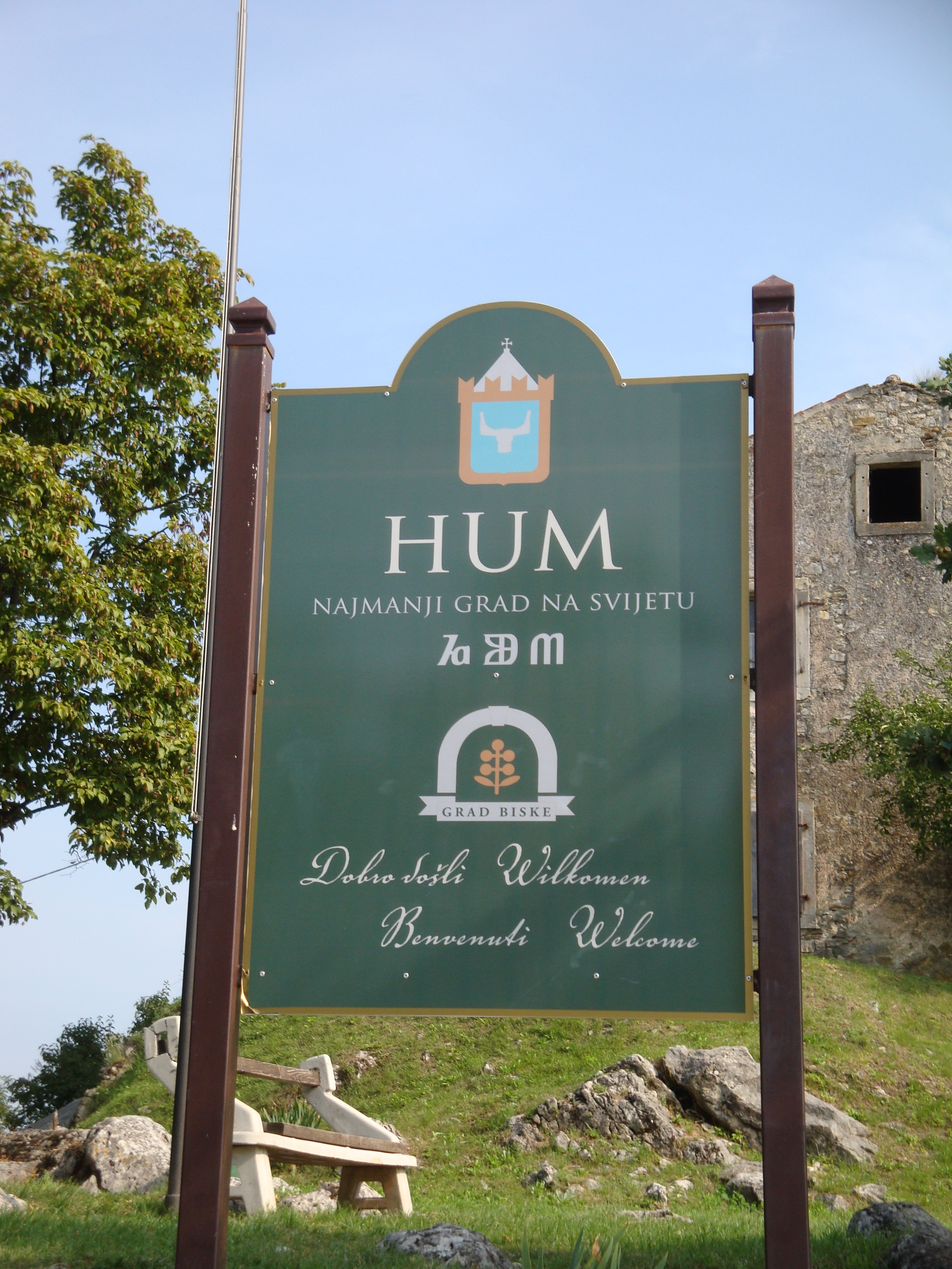 Hum – the world's smallest town